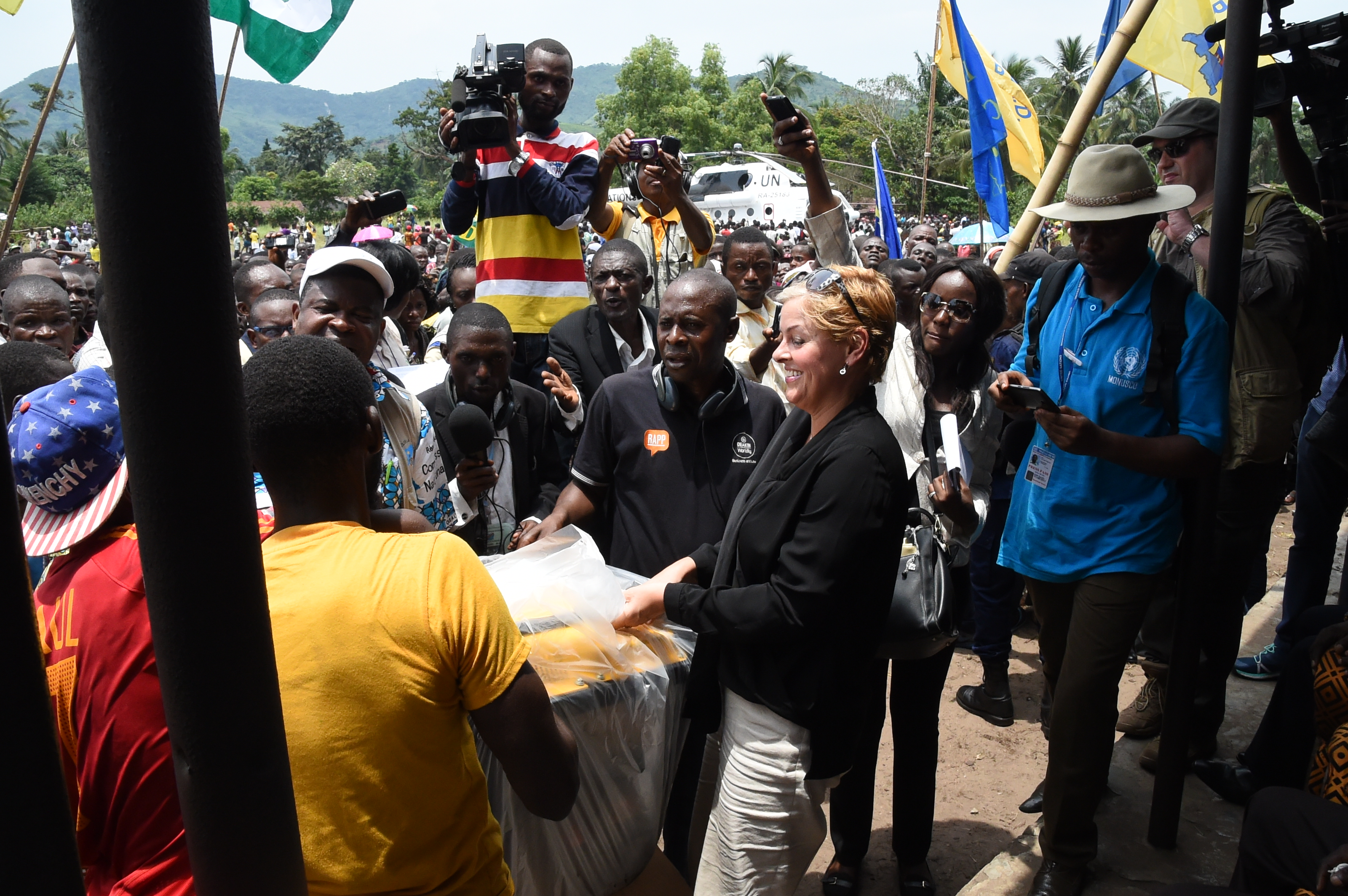 A huge crowd witnessed the delivery by MONUSCO of 29 generators to the CENI antenna of Popokabaka, Kwango Province. The ceremony took place in the presence of the Vice-Governor of the Kwango Province, CENI Rapporteur, MONUSCO Chief of Staff and representatives of the international community and media.